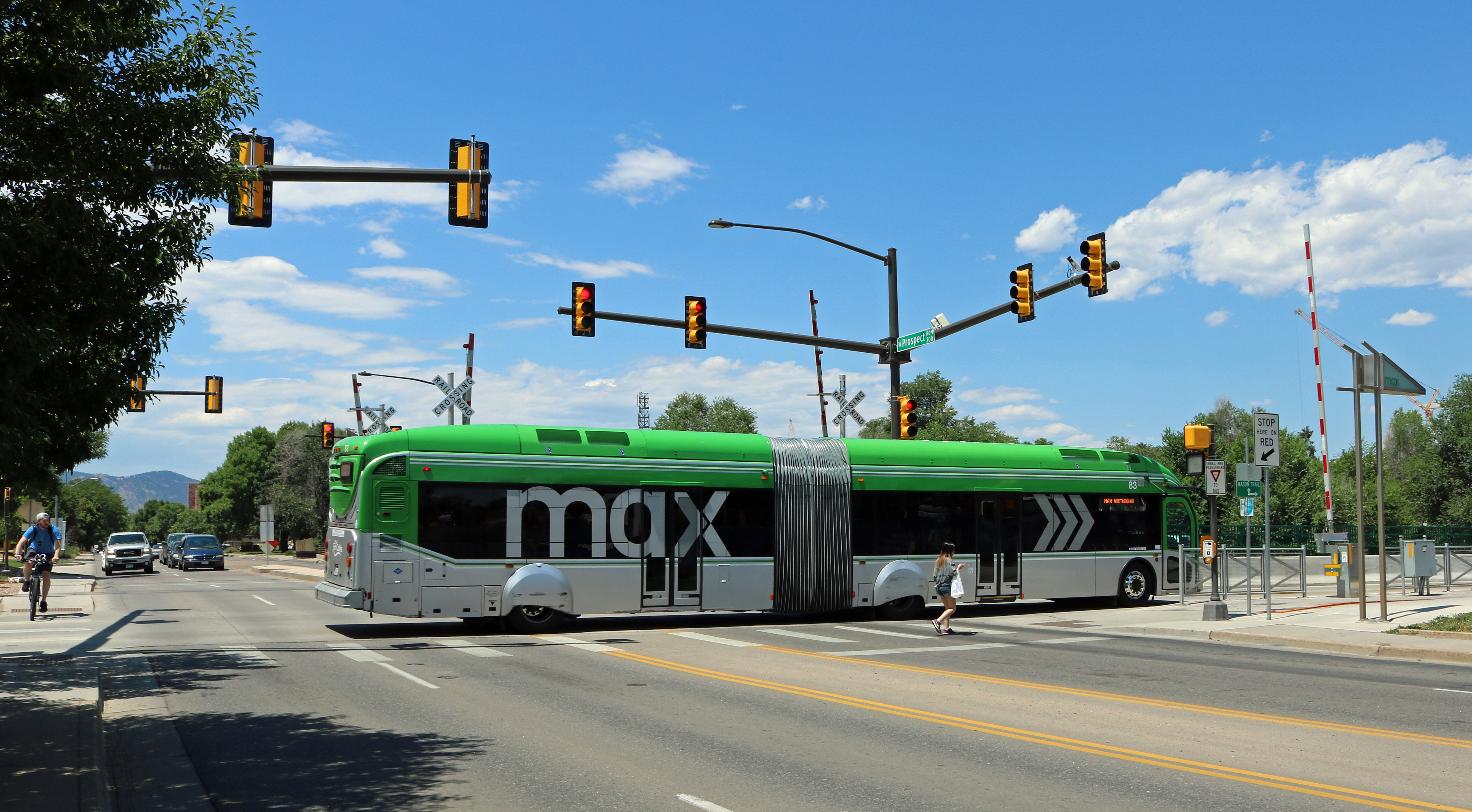 A Transfort Max bus operating on the Mason Corridor Transitway in Fort Collins, Colorado. Transfort operates bus rapid transit and regular city bus routes. This bus is crossing West Prospect Road.